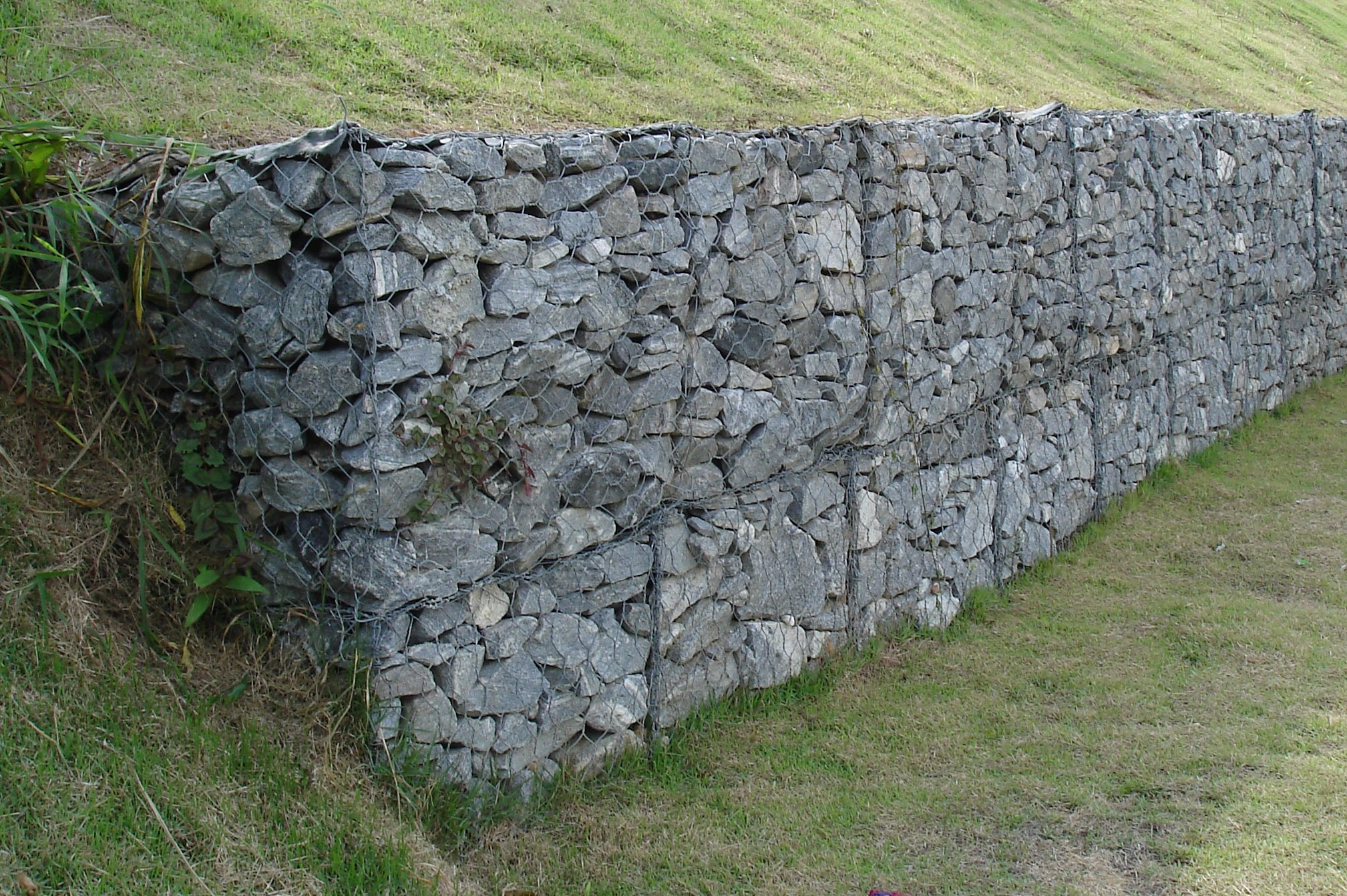 Gabion- corrosion resistant wire containers filled with stone used to built retaining walls, revetments, slope protection, channel linings and other engineering structures. Date:10-04-2006 Author:Eurico Zimbres Free for all use